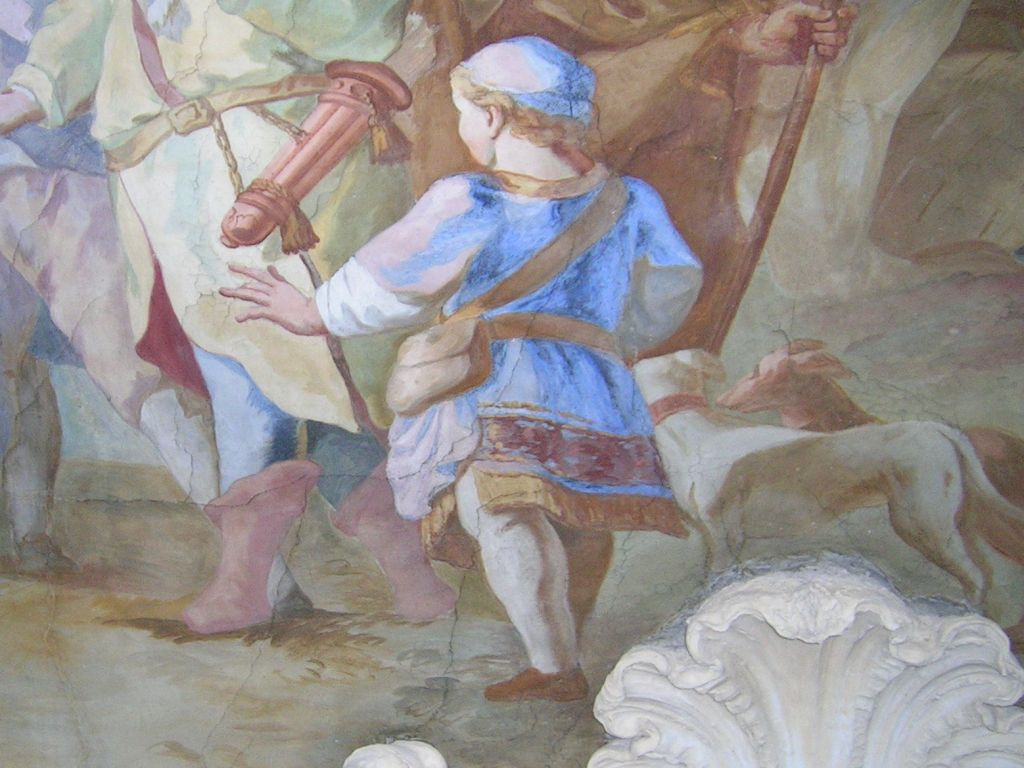 Part of a Fresco at St. Michael's in Berg am Laim (Munich, Bavaria)